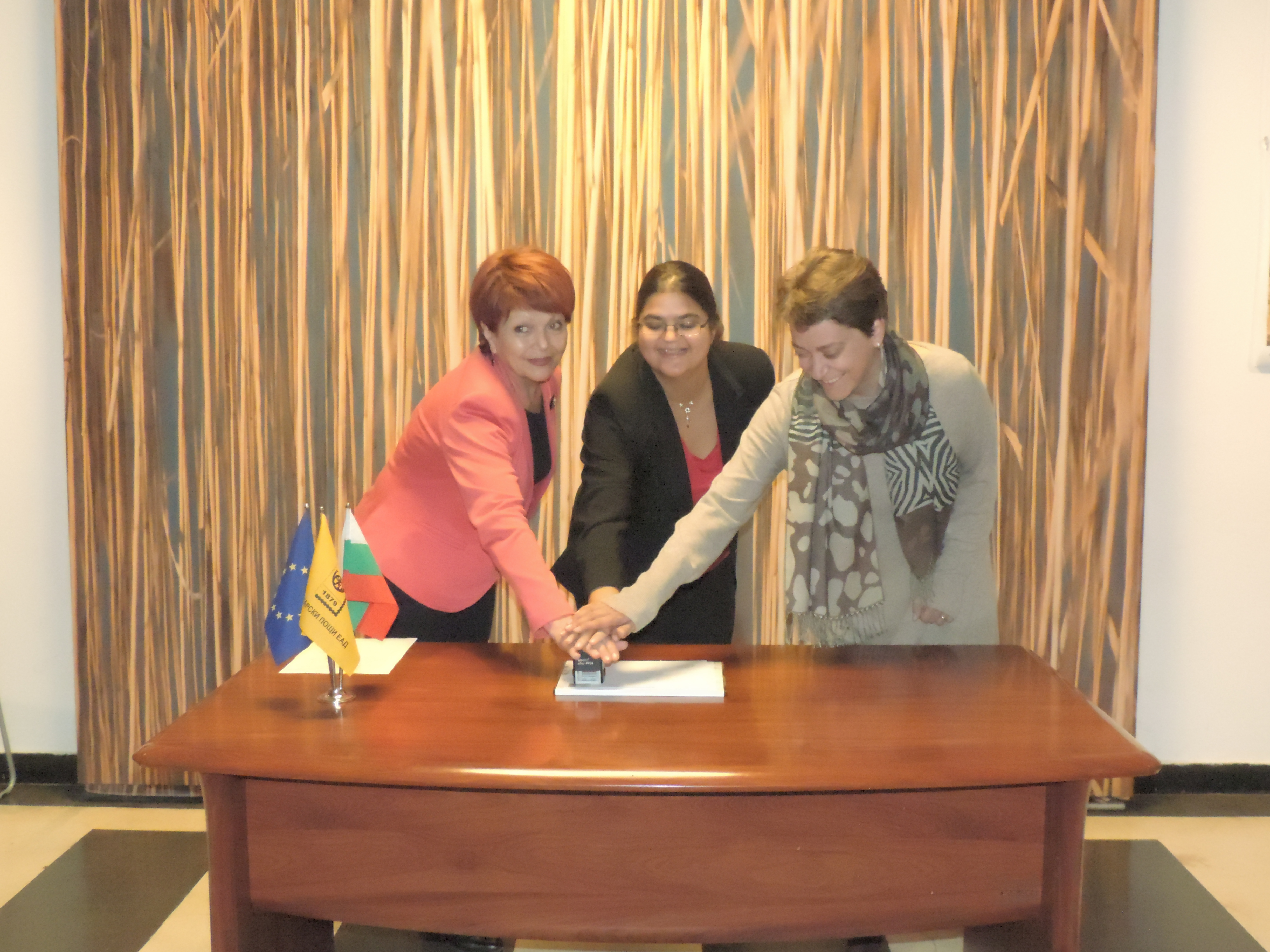 Photo from the ceremony of validation of the postage stamp "Wiki Loves Earth 2016 Bulgaria"